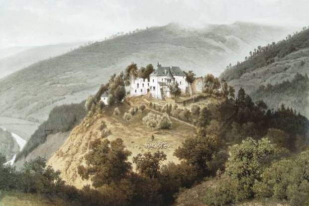 Burg Schwarzenberg close to the city of Plettenberg, Germany